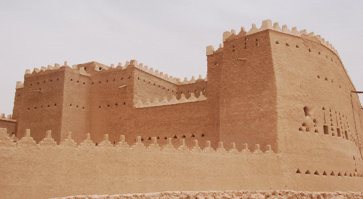 This picture was taken by User:Petrovic-Njegos in Diriya, Saudi Arabia.